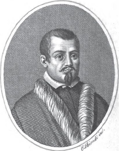 Mariano Valguarnera, Sicilian philologist